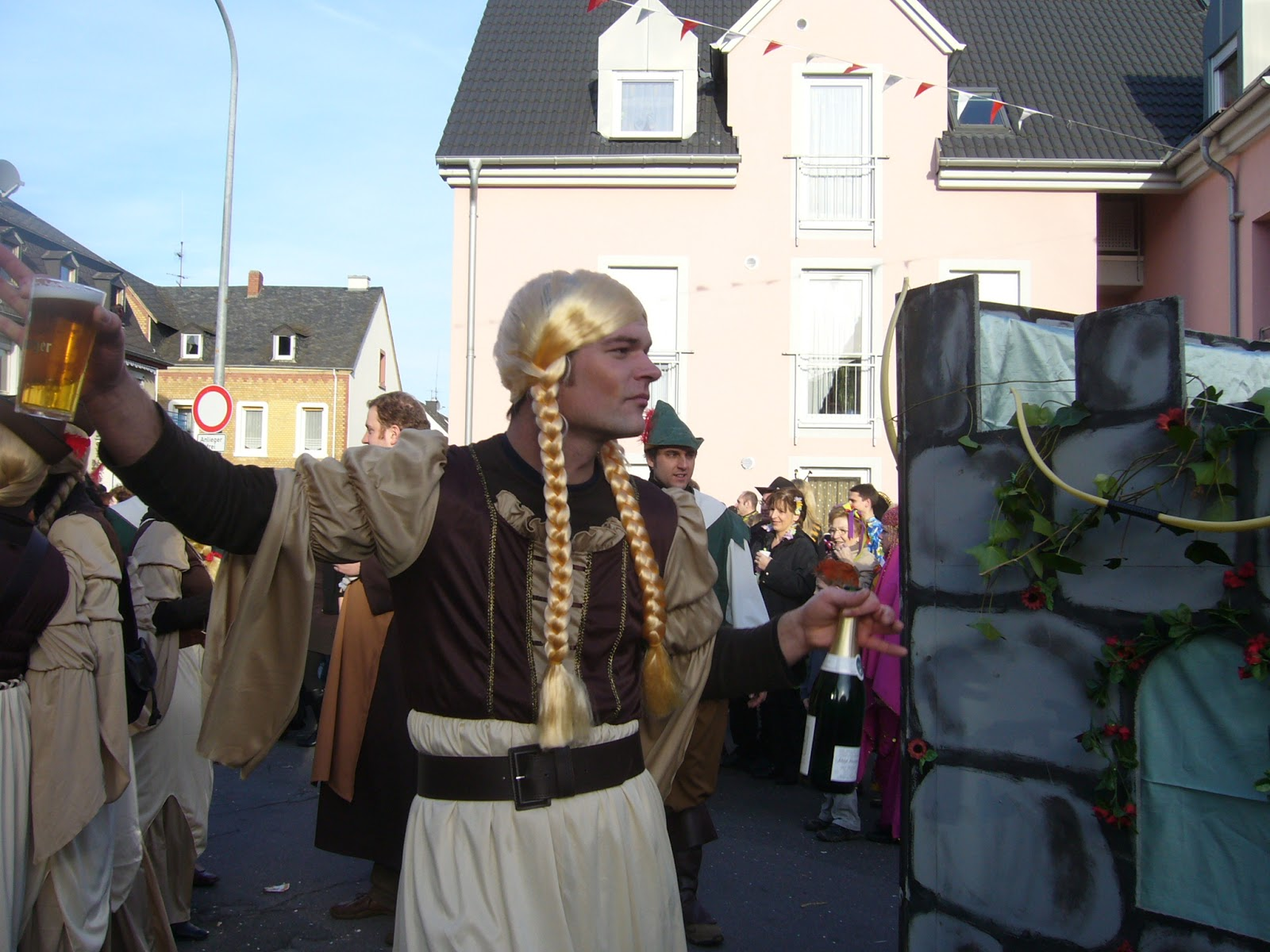 Roll reverse is part of the origin of the carnaval.